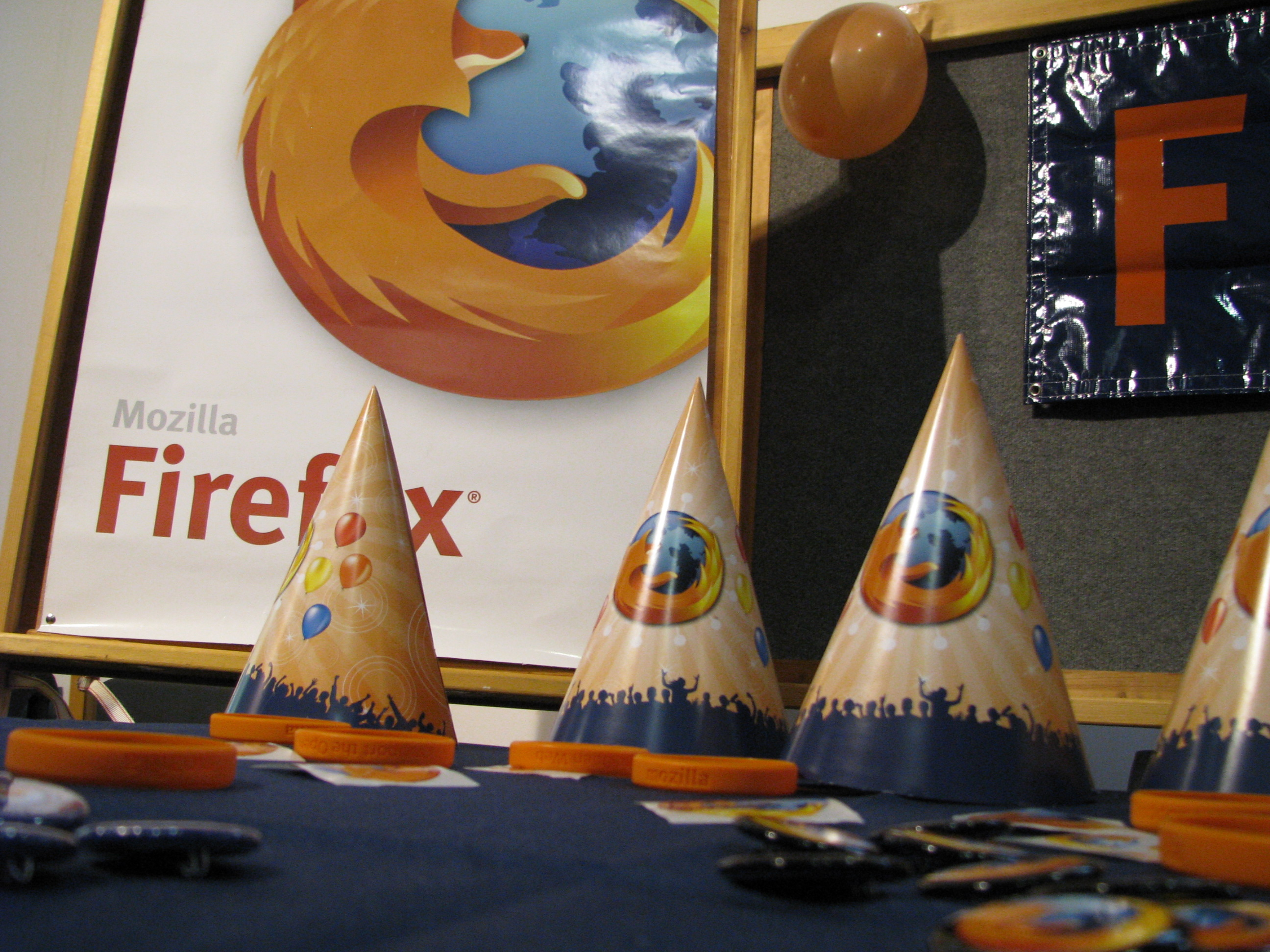 Merchandise with Mozilla's logo in the Mozilla booth during August Penguin 2009.